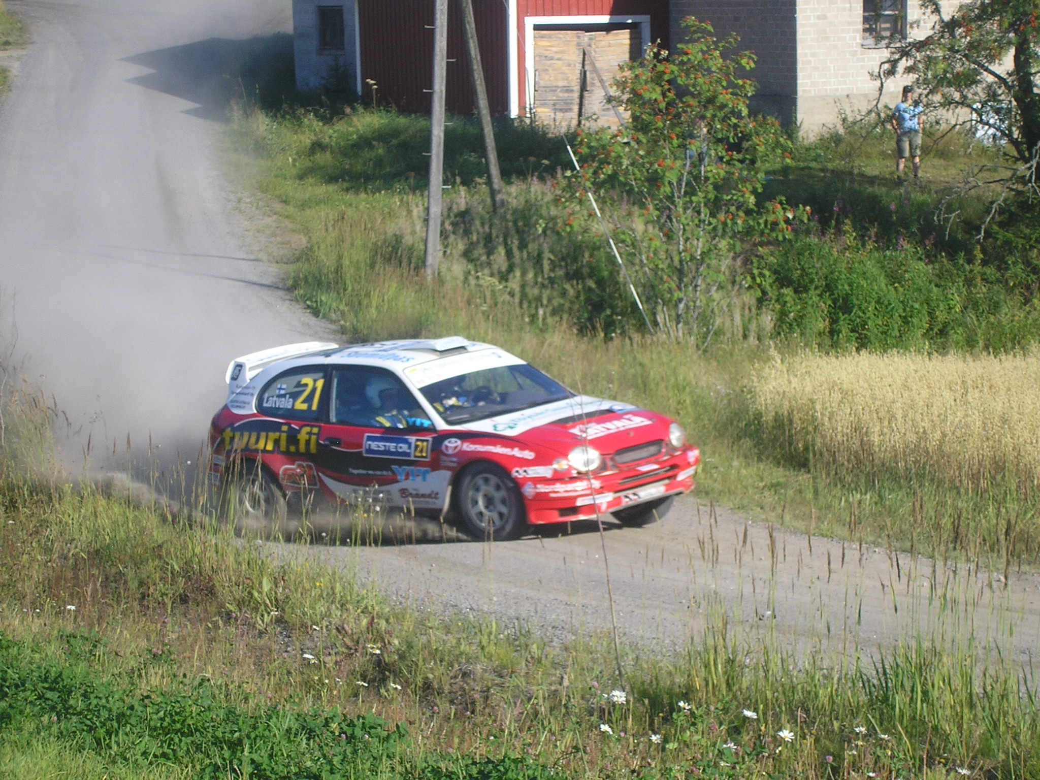 Jari-Matti Latvala at Moksi-Leustu stage during Rally Finland 2006.